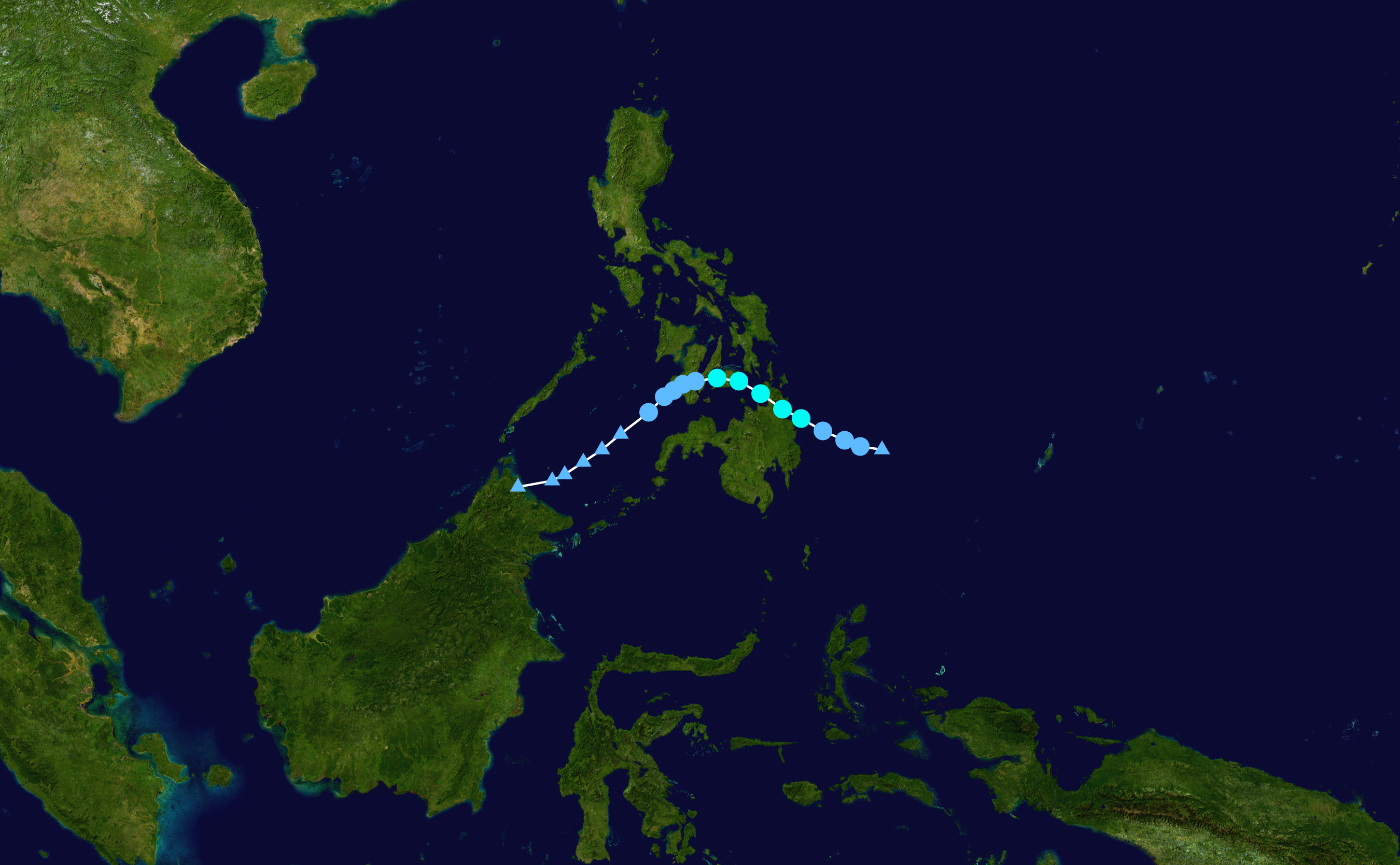 Track map of Tropical Storm Jangmi of the 2014 Pacific typhoon season. The points show the location of the storm at 6-hour intervals. The colour represents the storm's maximum sustained wind speeds as classified in the Saffir–Simpson scale (see below), and the shape of the data points represent the nature of the storm, according to the legend below. Saffir–Simpson scale Tropical depression≤38 mph≤62 km/h Category 3111–129 mph178–208 km/h Tropical storm39–73 mph63–118 km/h Category 4130–156 mph209–251 km/h Category 174–95 mph119–153 km/h Category 5≥157 mph≥252 km/h Category 296–110 mph154–177 km/h Unknown Storm type Tropical cyclone Subtropical cyclone Extratropical cyclone / Remnant low / Tropical disturbance / Monsoon depression